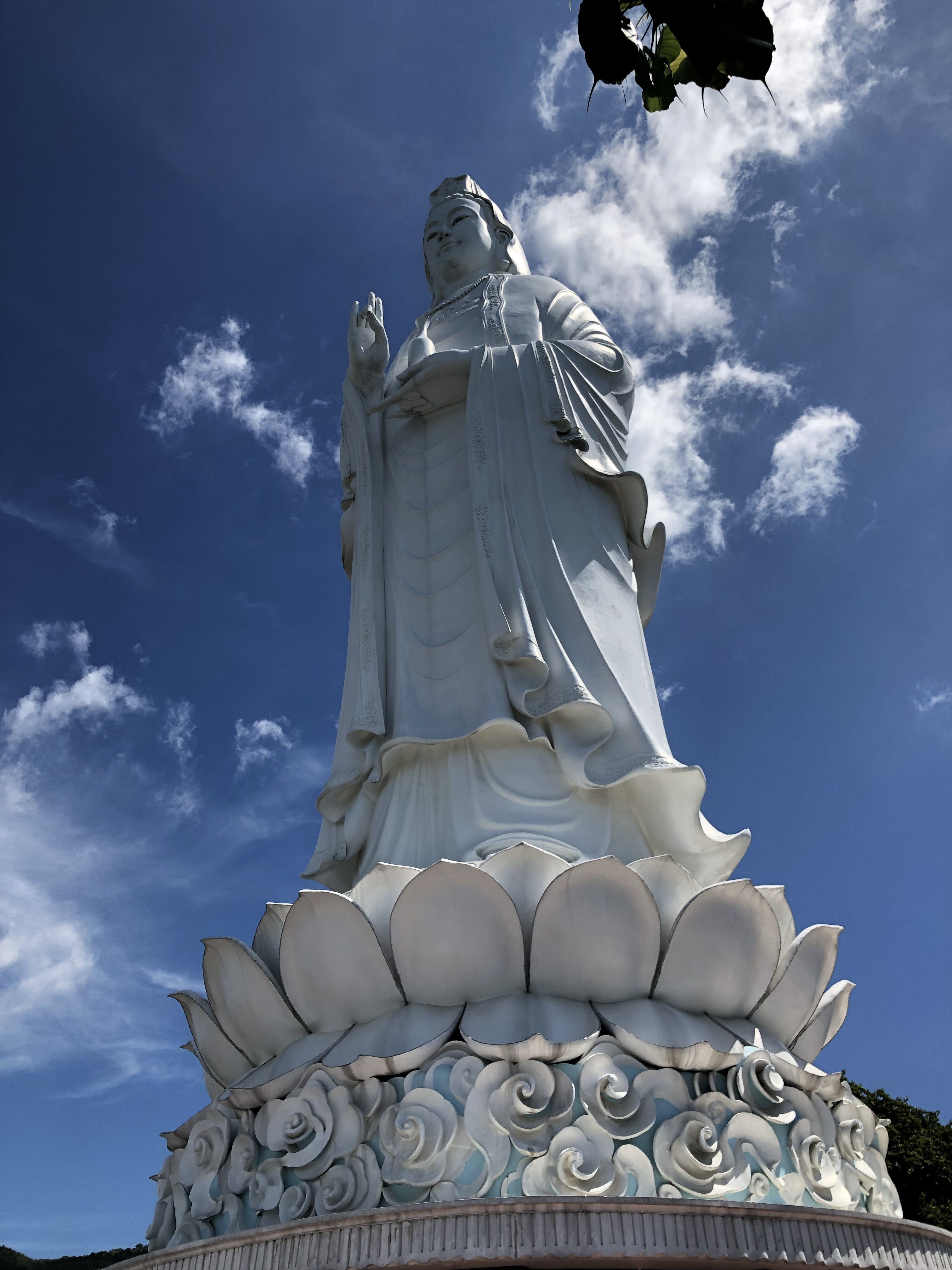 This image was taken in Da Nang, Vietnam of Lady Buddha.